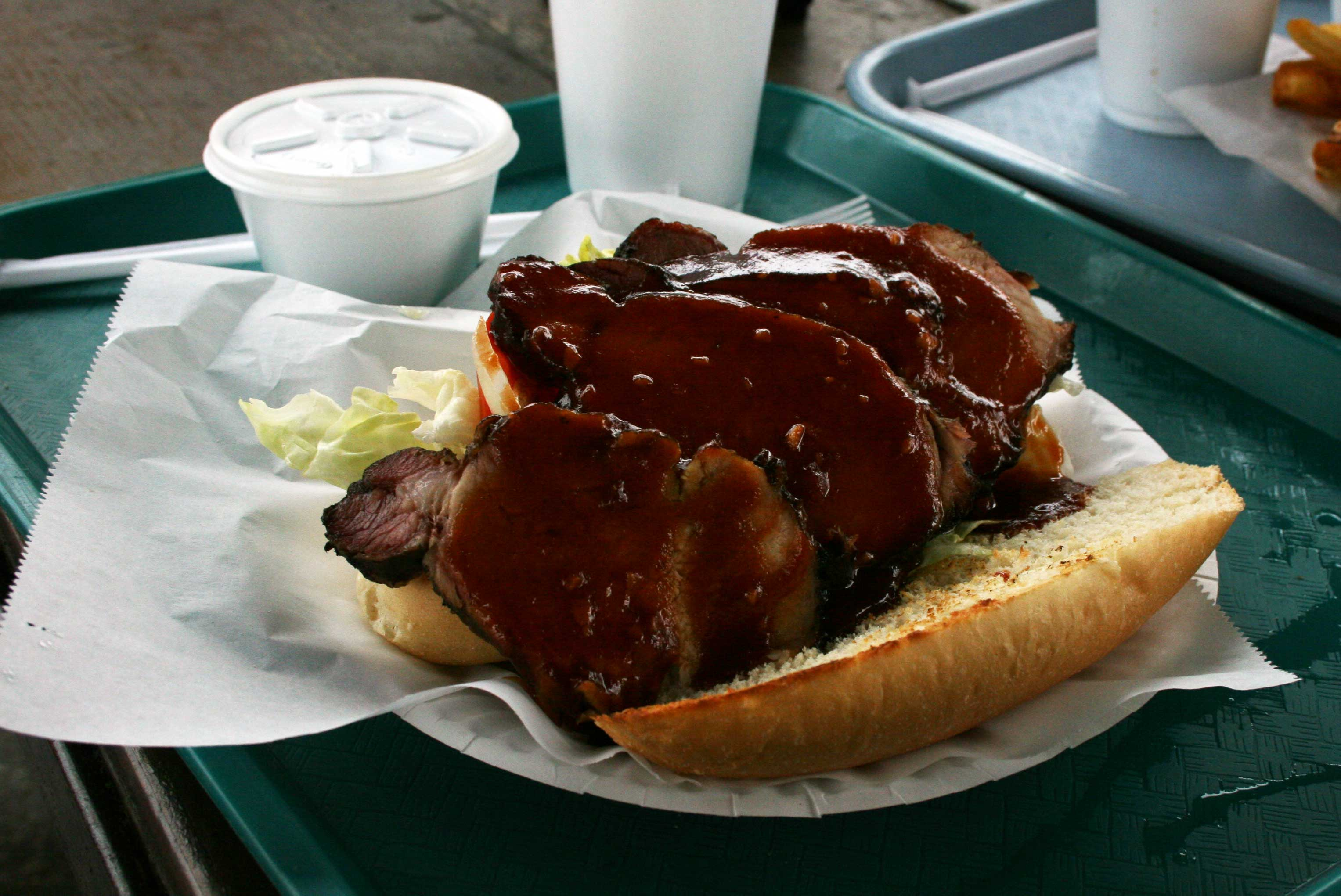 LA can be a bit of a BBQ desert, but I'm sympathetic to the chow at BBQ king. It's also conveniently located at Figueroa and Sunset, so it's an easy stop when I'm downtown bound.